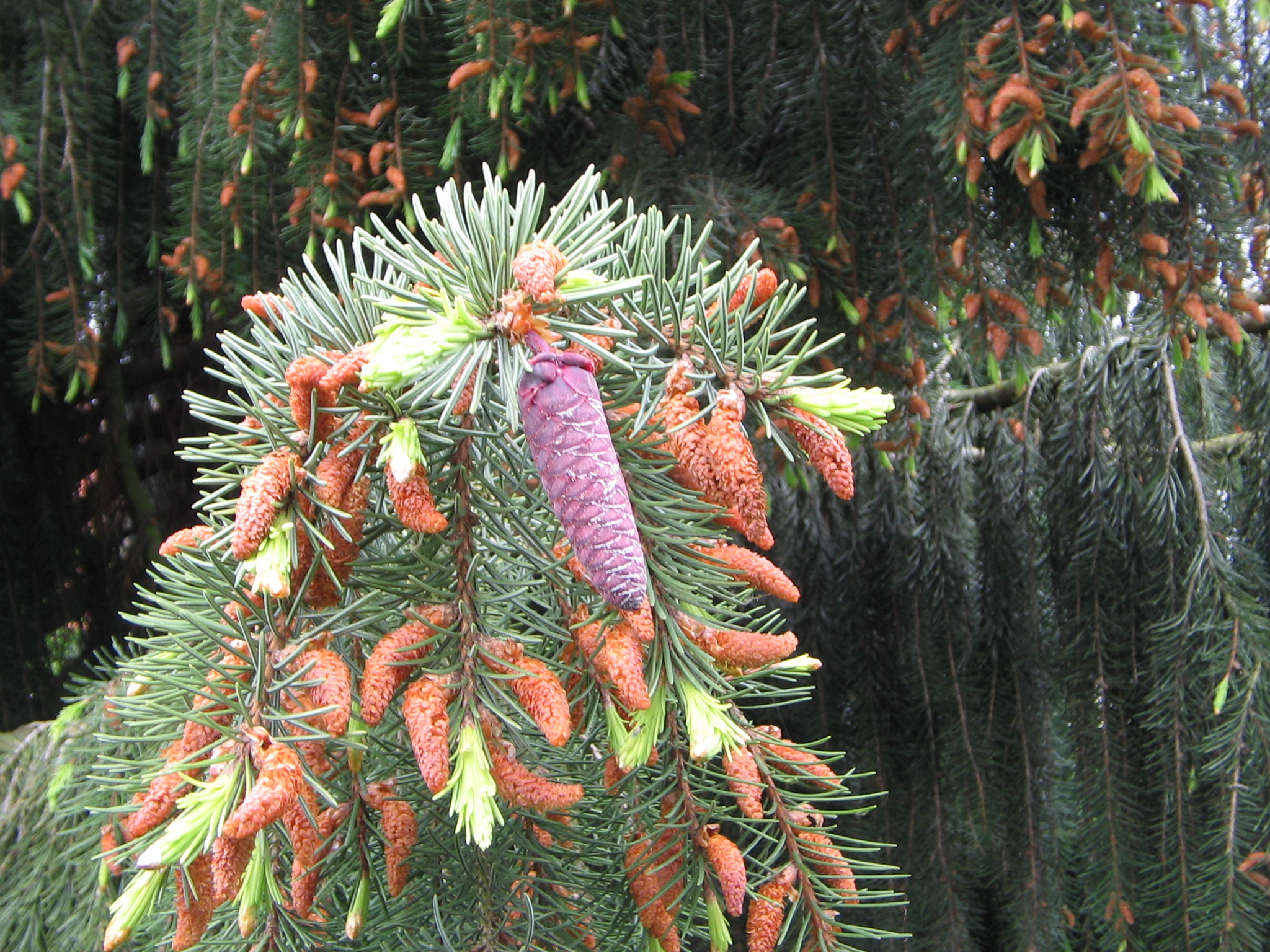 Picea breweriana - young cone